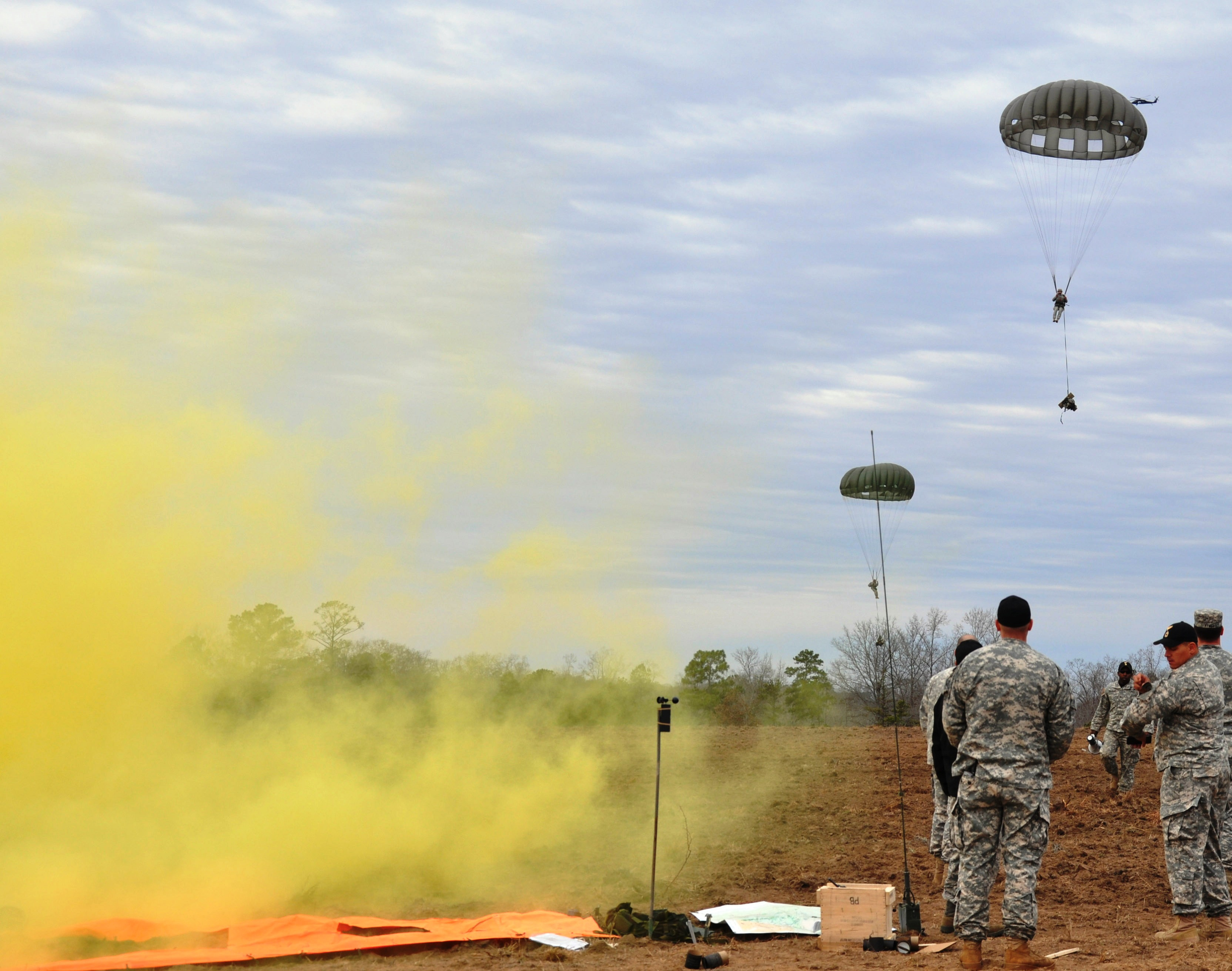 U.S. Army Pathfinder instructors, called "Black Hats," release colored smoke to show their students the wind direction on a parachute drop zones they have established at Fort Benning, GA